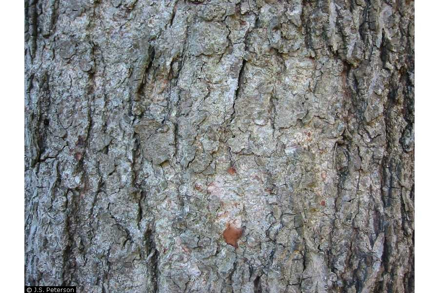 Bitternut Hickory Bark